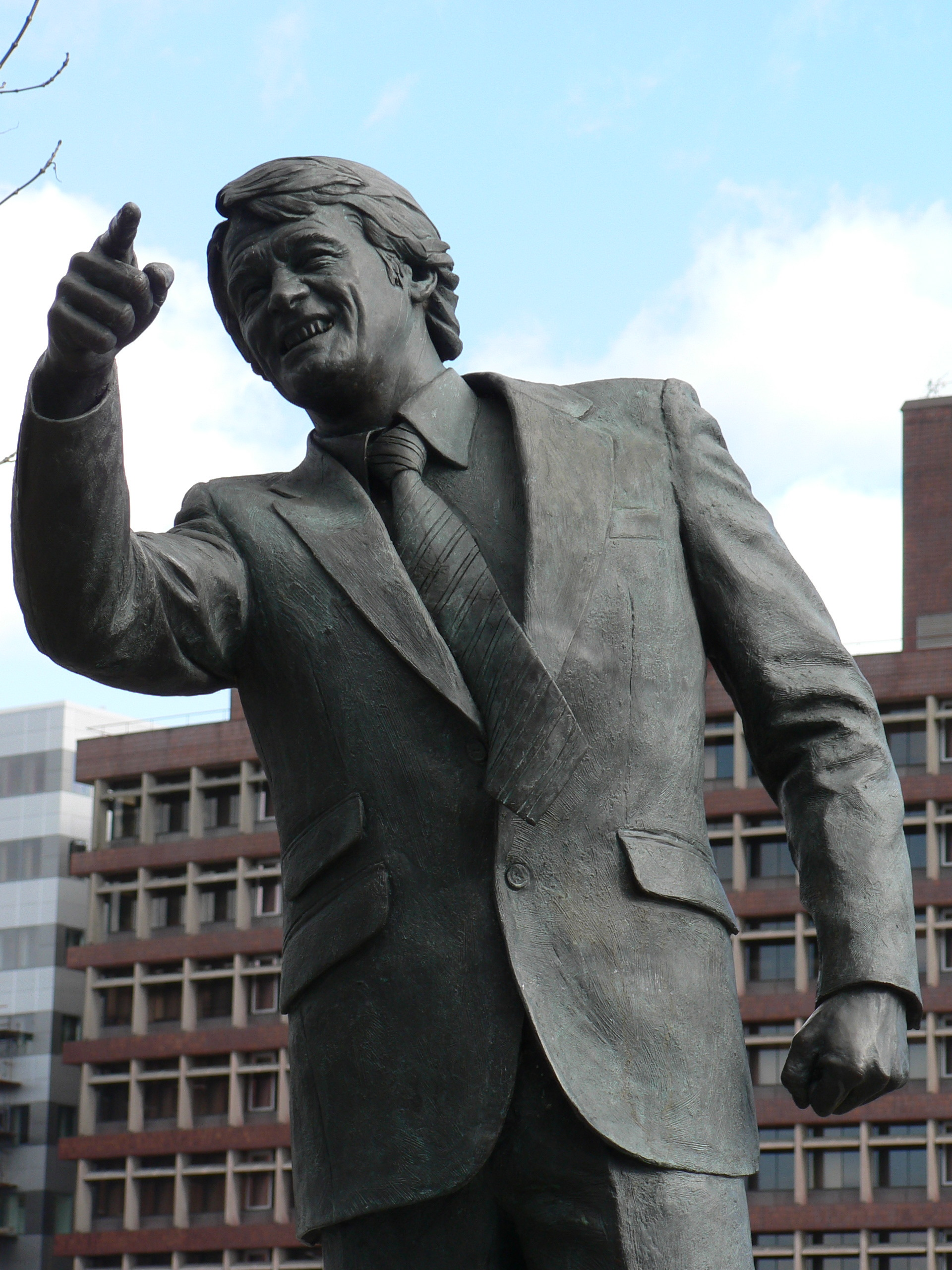 The statue of Sir Bobby Robson outside Ipswich Town F.C.'s home stadium Portman Road in Ipswich, Suffolk, England. It stands on Portman Road facing the east stand (the Cobbold Stand). Robson was manager of the club from 1969 until 1982, guiding them to success in the 1981 UEFA Cup Final. Sculpted by Sean Hedges-Quinn, it was unveiled on 16 July 2002. Robson was honorary president of the club from 7 July 2006 until his death on 31 July 2009. See the category for full details.